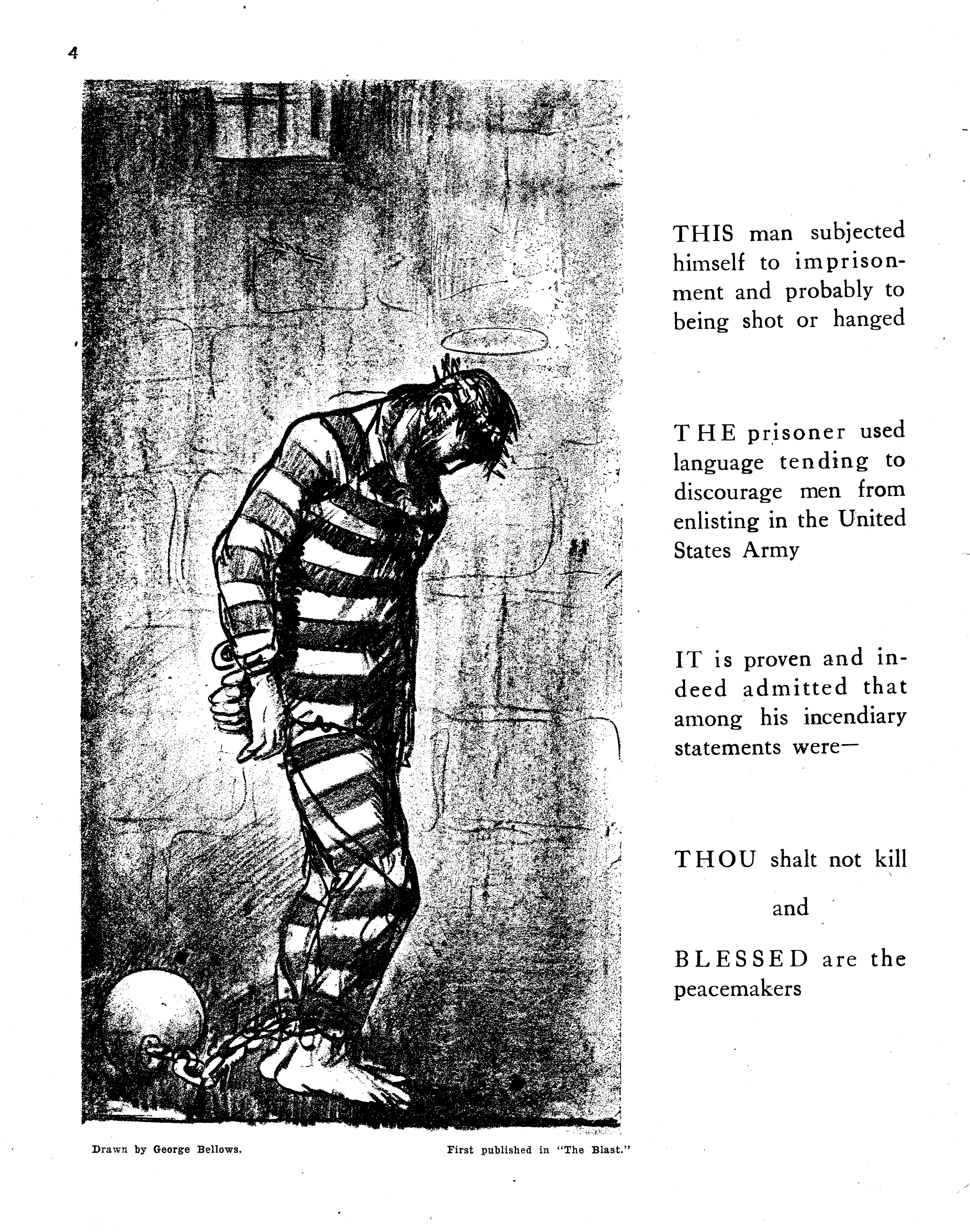 Blessed are the Peacemakers by George Bellows. Anti-war cartoon depicting Jesus with a halo in prison stripes alongside a list of his seditious crimes. First published in The Masses in 1917.